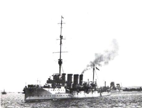 British light cruiser HMS Bristol.